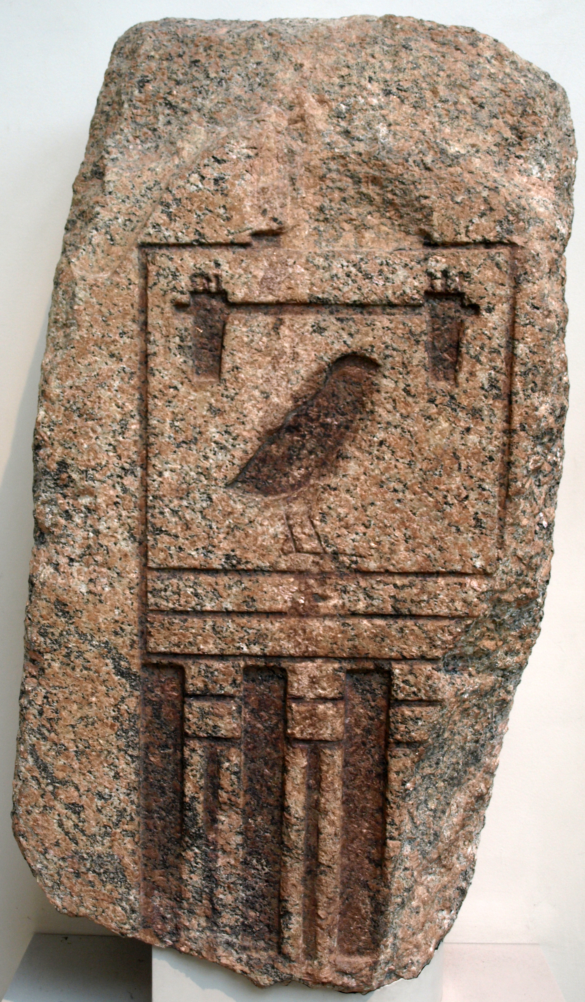 Granite slab featuring the Horus name of the pharaoh Khufu, circa 2570 BC. Found at Bubastis, it may have originally been part of a mortuary temple adjacent to the Great Pyramid.